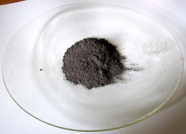 Antimony(III) sulfide, Sb2S3